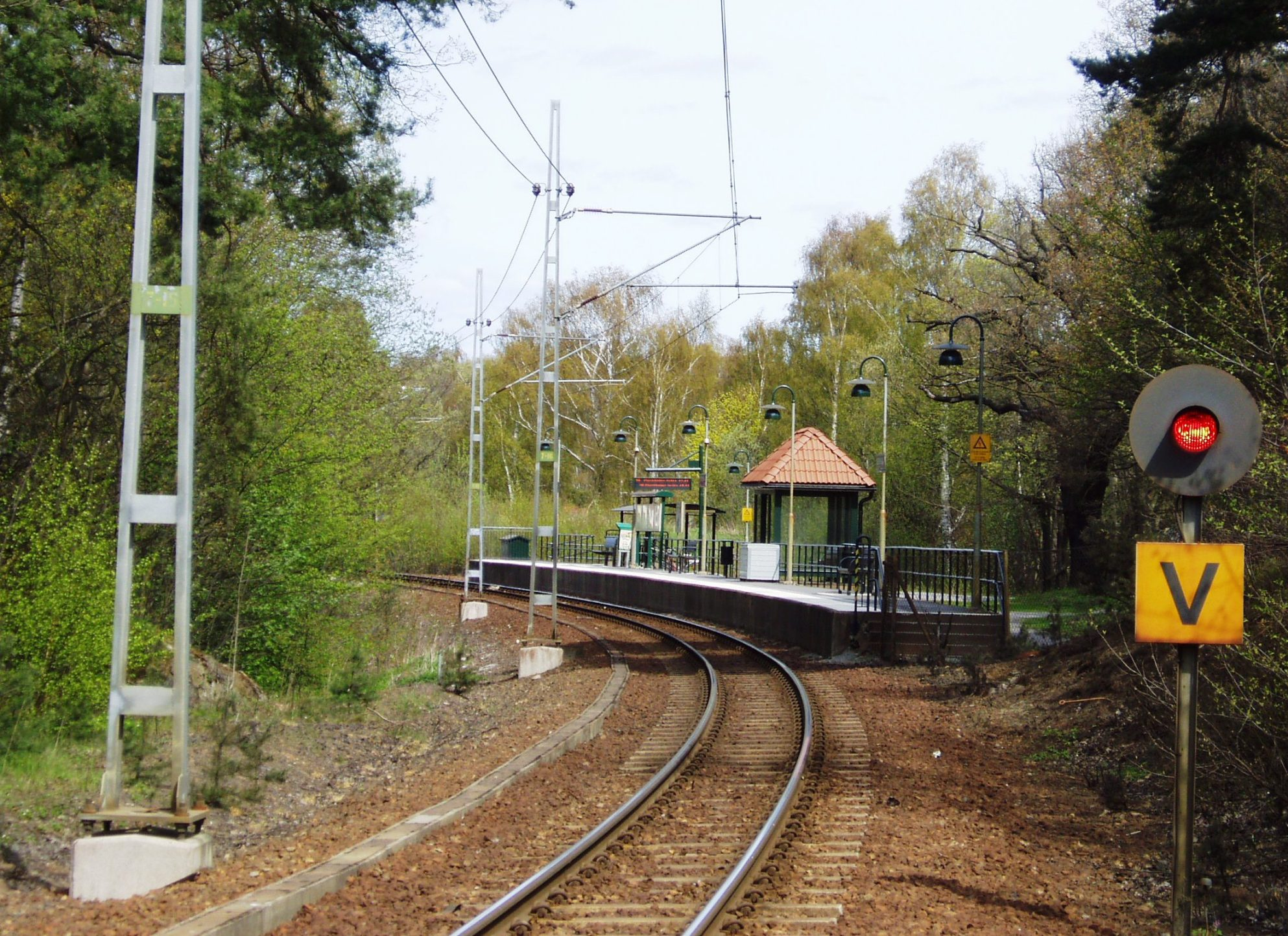 The railway station Östberga, Danderyd, north of Stockhom, Sweden, May 2012